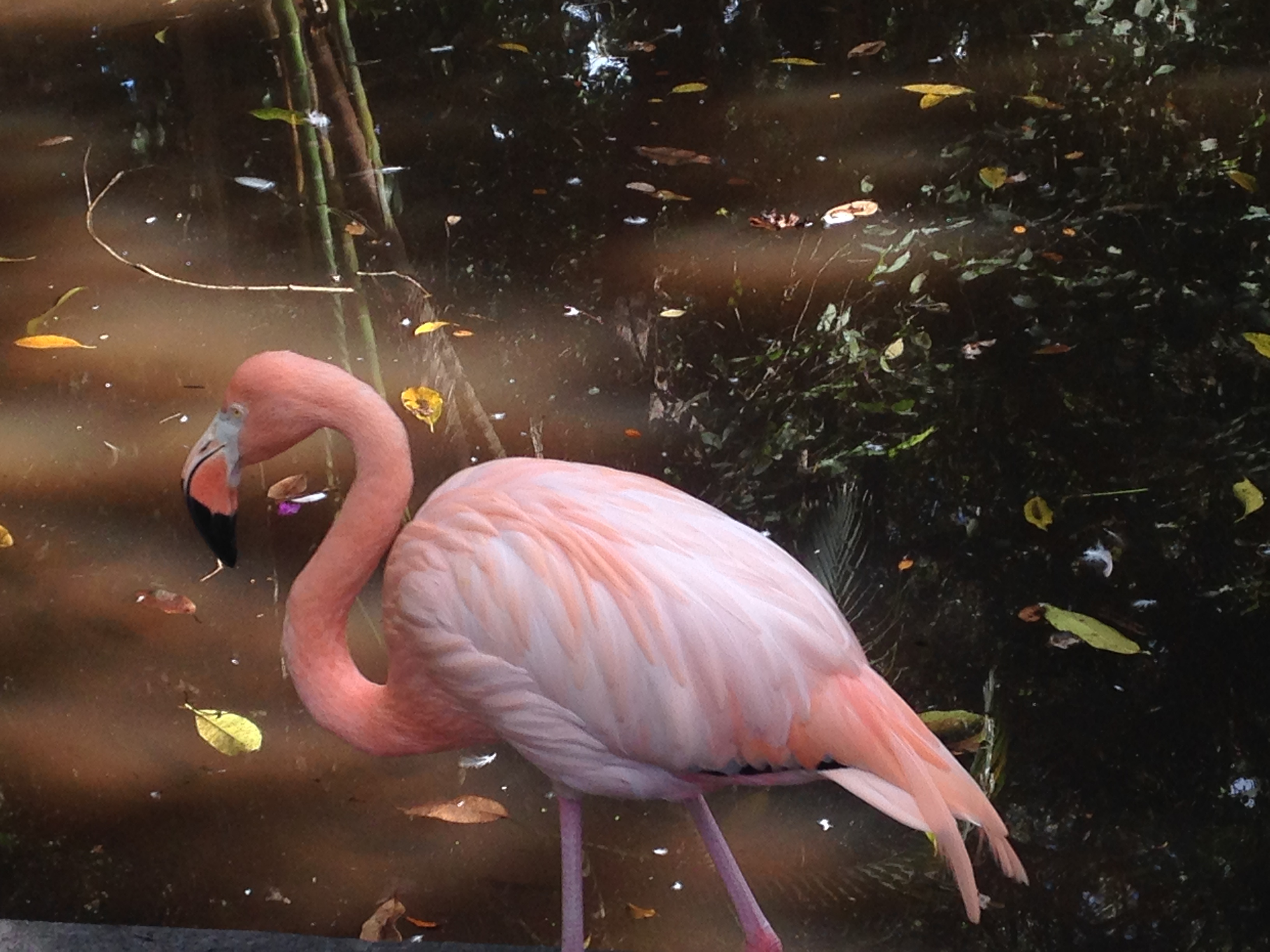 A Flamingo in Florida stands in the water.